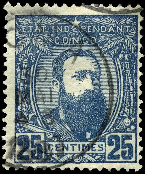 Congo Free State 25-centime stamp of 1889